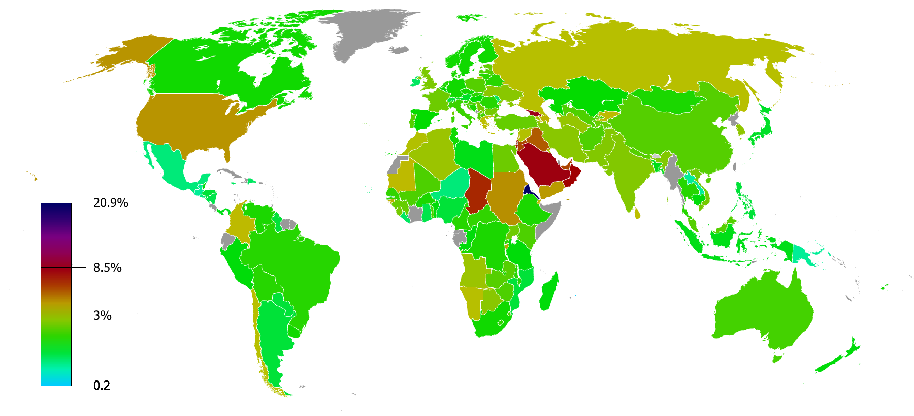 Map of military expenditure by GDP, 2008